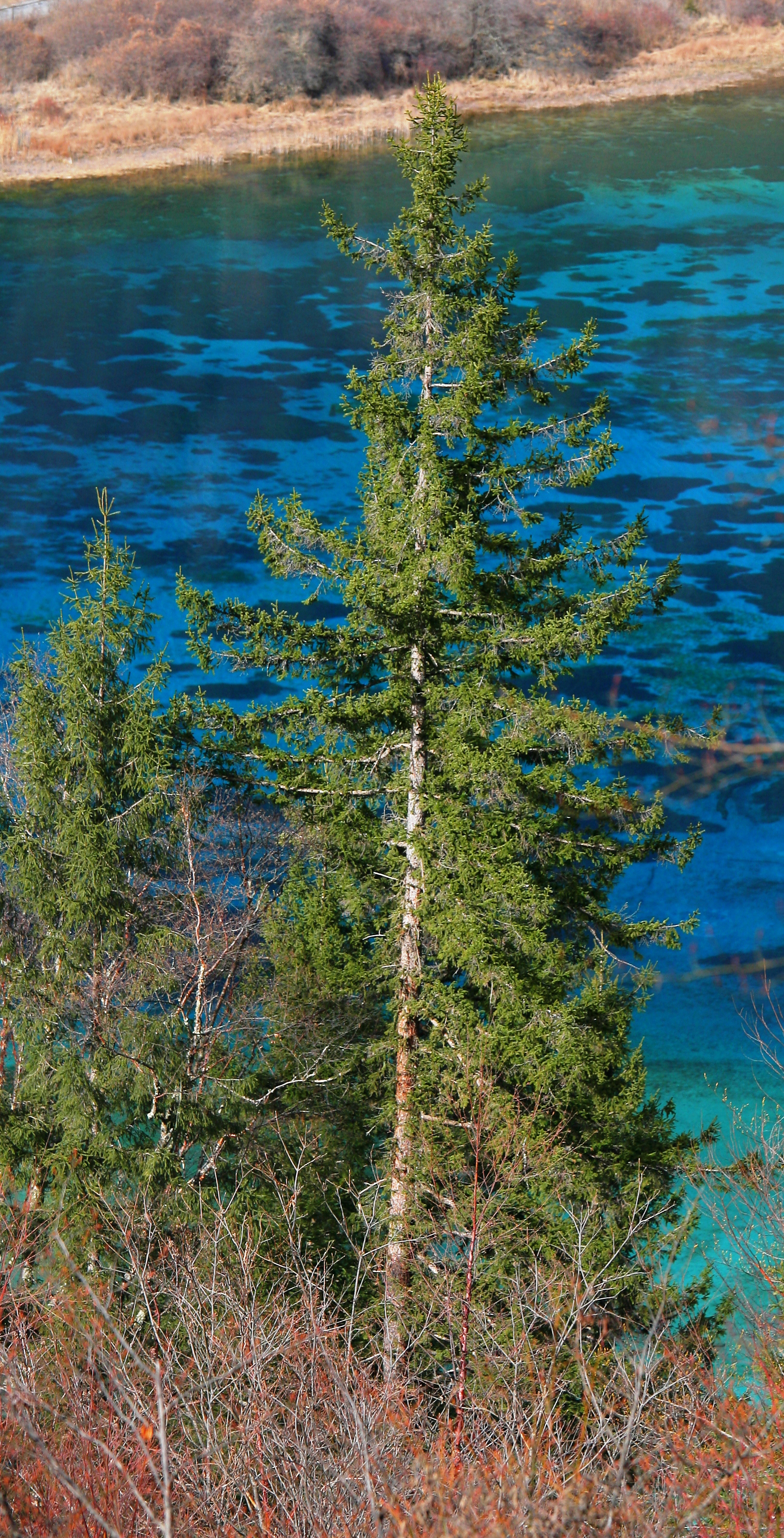 Picea wilsonii, Jiuzhaigou Valley, Sichuan, China.